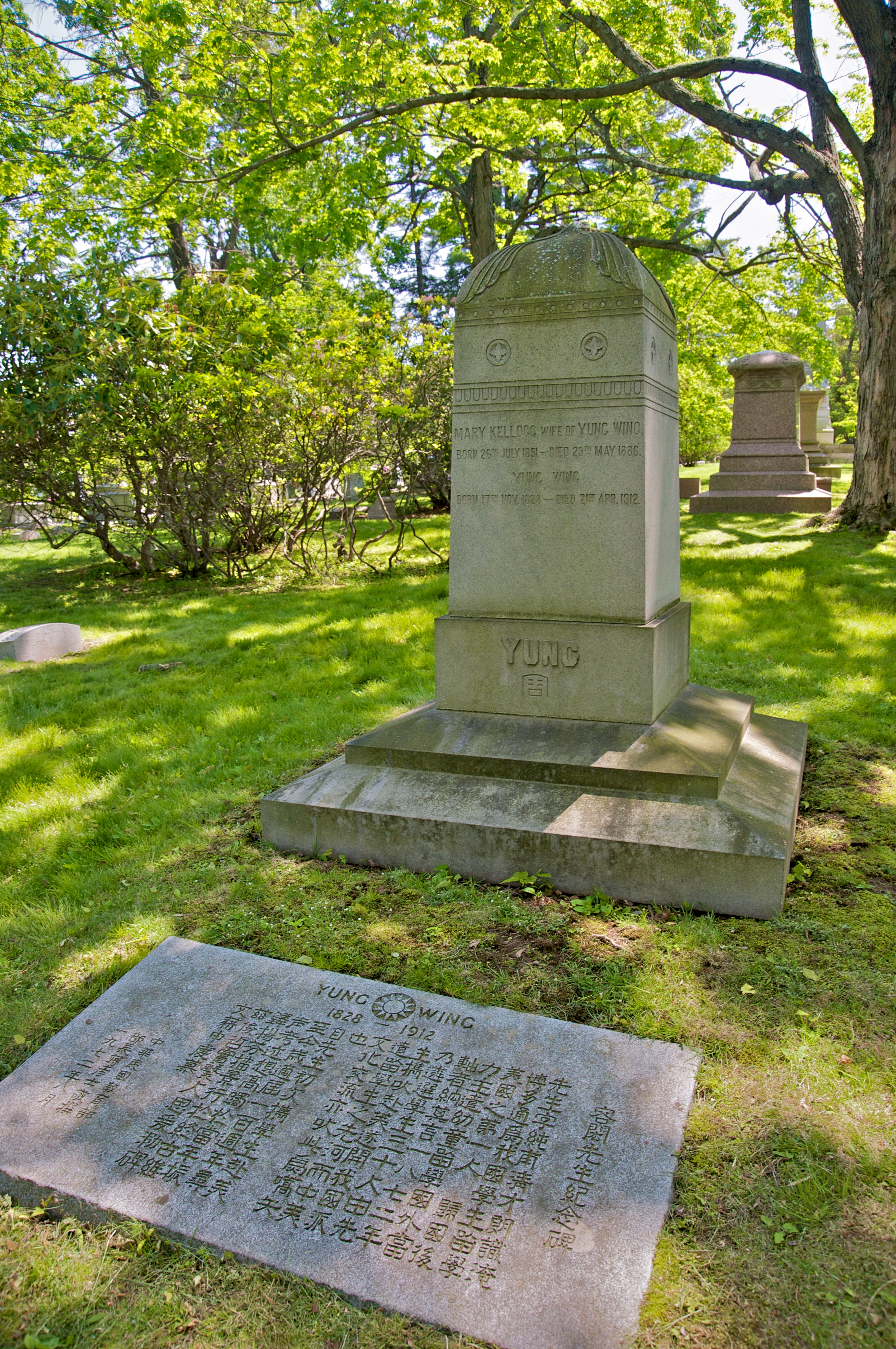 Grave of Yung Wing at Cedar Hill Cemetery